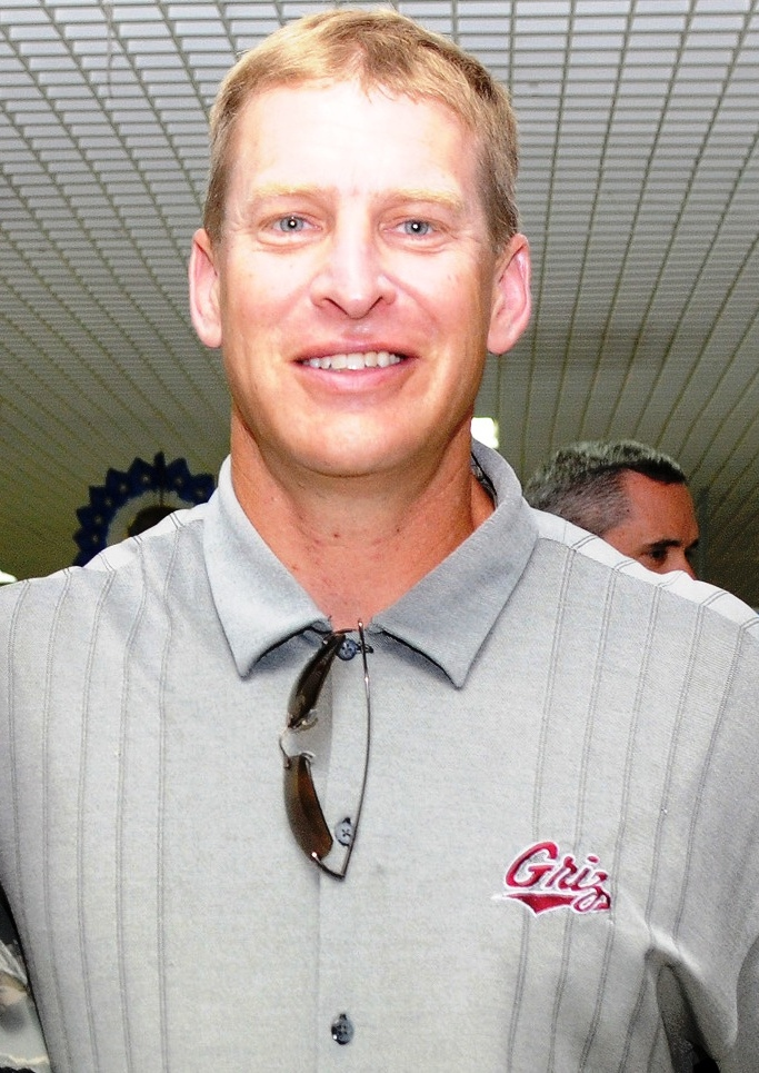 U.S. Air Force Airman 1st Class Crystal Hauck (not pictured), from Fresno, Calif., meets Bobby Hauck, University of Montana head coach at Camp As Sayliyah, Qatar, July 5. "Other than relatives, I've never met anyone with the same last name," said Hauck. "I had to meet him today – we may be distant cousins." Hauck traveled overseas to show support for military installations in the Middle East with four other National Collegiate Athletic Association head football coaches: Robb Akey, University of Idaho; Chris Smeland, West Point, The U.S. Military Academy; Mickey Matthews, James Madison University and David Bailiff, Rice University.